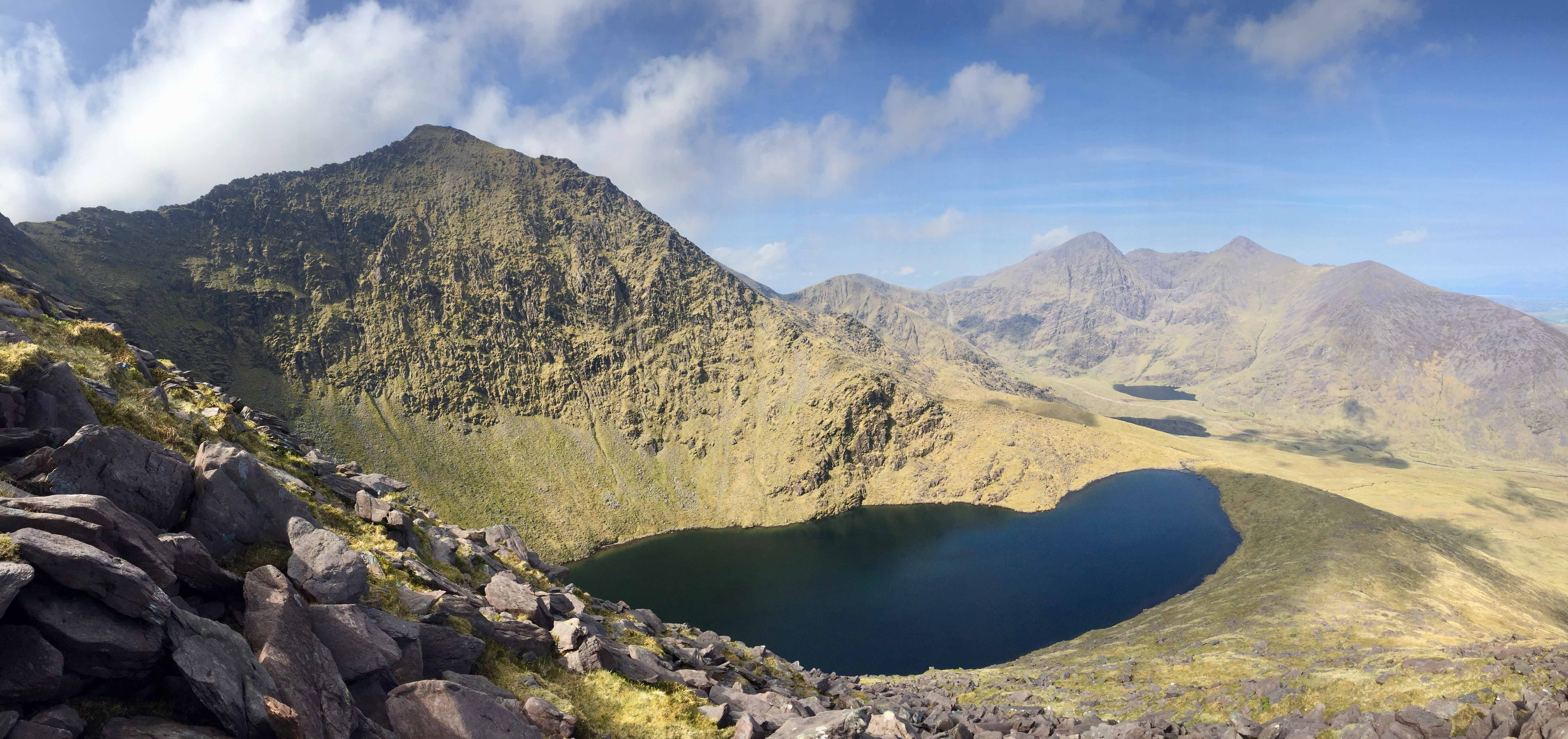 Looking back westward at the summit of Cnoc na Peiste and Lough Cummeenapeasta below it from The Big Gun